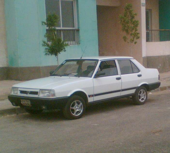 A photo of a 2003 shain taken in Cairo Egypt. It is probably incorrect name model. He looks how Tofaş Dogan (luxury version), not like Tofaş Şahin (low cost version).